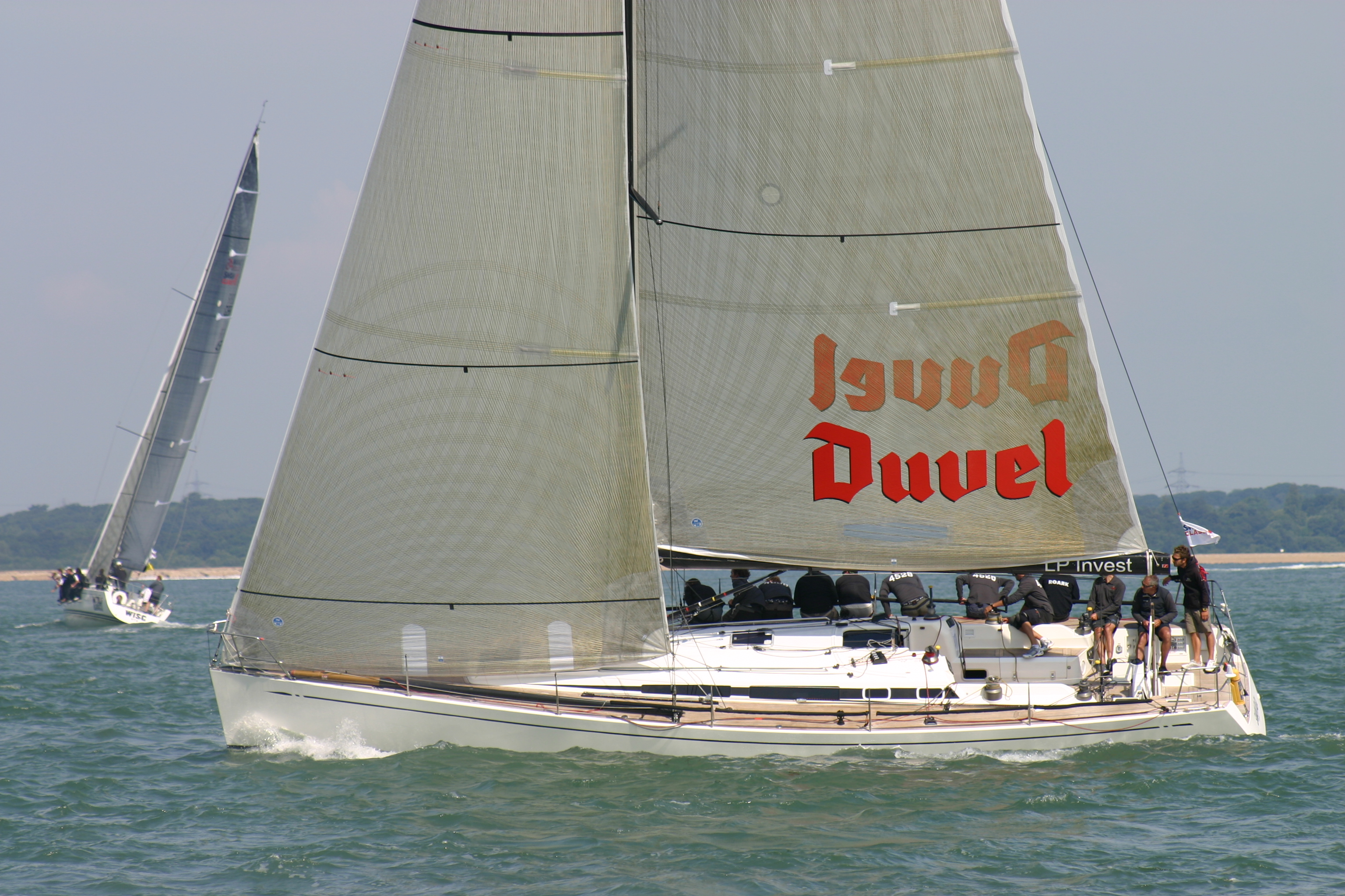 Swan 45 Samantaga BEL4528 at the 2011 Swan Europeans in Cowes (GBR) held by the Royal Yacht Squadron